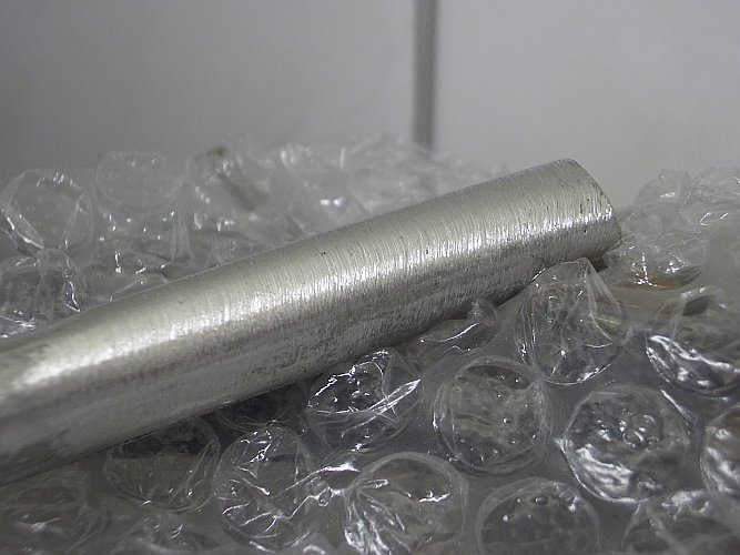 Pure cadmium rod